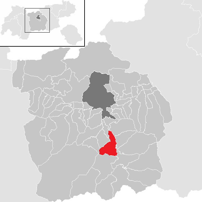 District Innsbruck Land